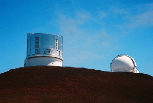 The Subaru Telescope and one of the telescopes of the W. M. Keck Observatory at Mauna Kea Observatory, Hawai'i.